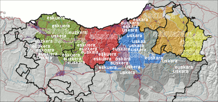 Modern map of Basque dialects, developed by Koldo Zuazo: *Green: Western dialect *Red: Central dialect *Blue: Navarrese *Orange: Navarrese-lapurdian *Yellow: Dialect of Soule/ *Grey: Basque speaking places in the 19th century (according to Bonaparte's map)